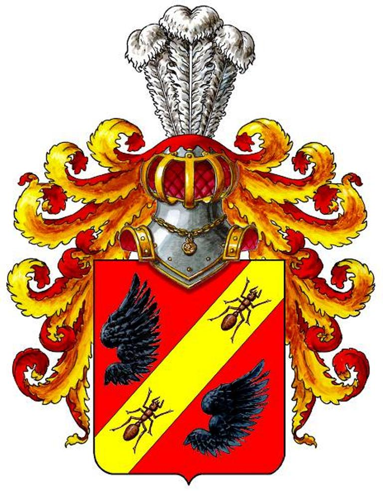 Coat of Arms of Bajenovy family